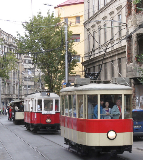 Old streetcars parade in Bucharest